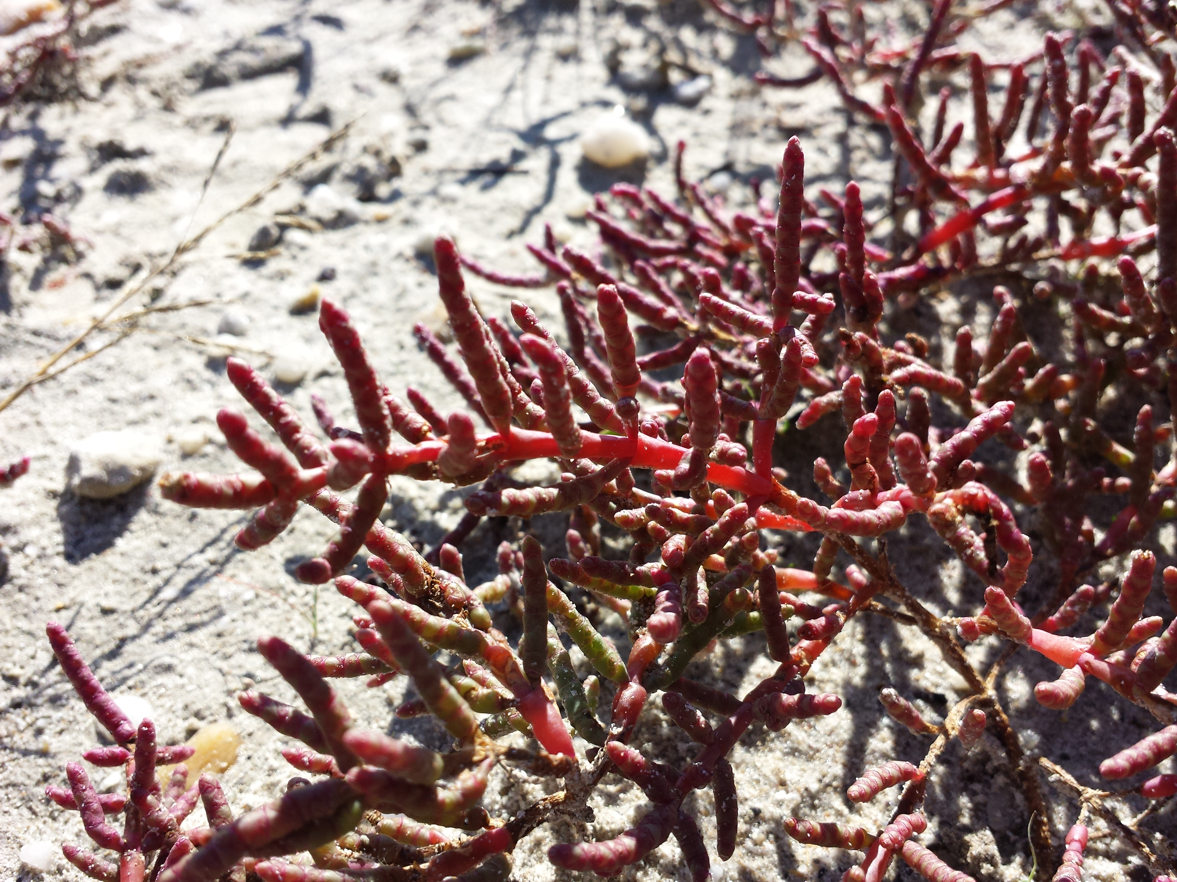 Habitus Taxon: Salicornia prostrata (sensu Fischer et al. EfÖLS 2008; det M. A. Fischer 2013-10-12) Location: small salt lake near Podersdorf, district Neusiedl am See, Burgenland, Austria - ca. 120 m a.s.l. Habitat: dried-out small salt lake